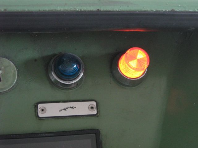 Memor yellow light on (signal repetition system in Belgium)